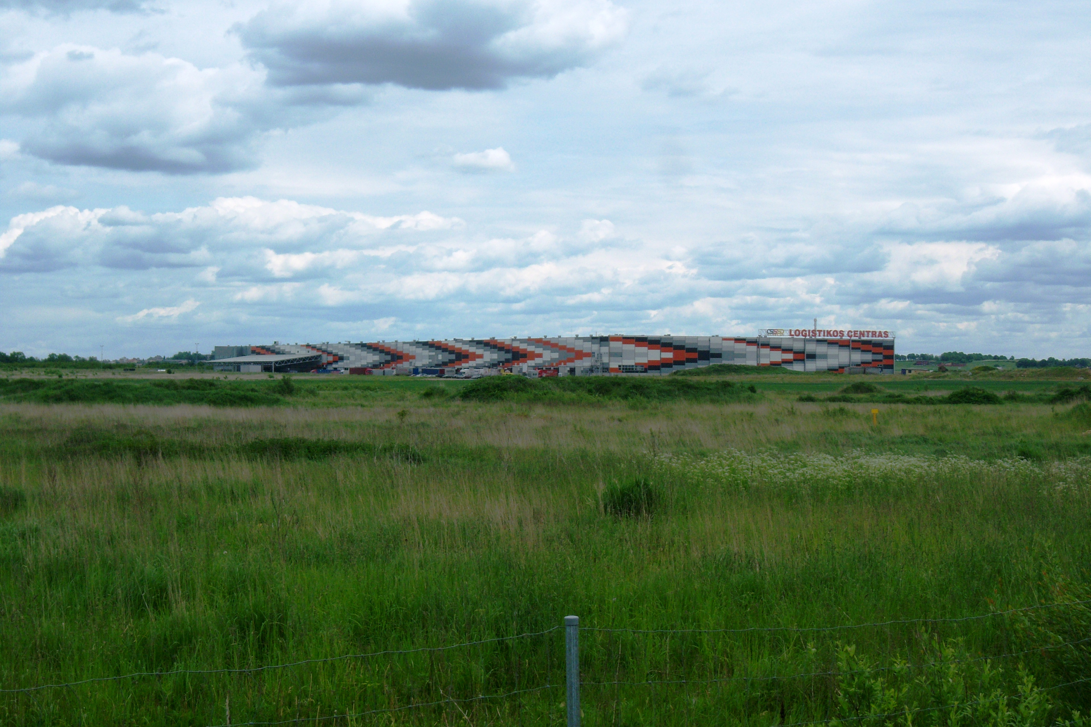 Logistics terminal, Kaunas district, Lithuania